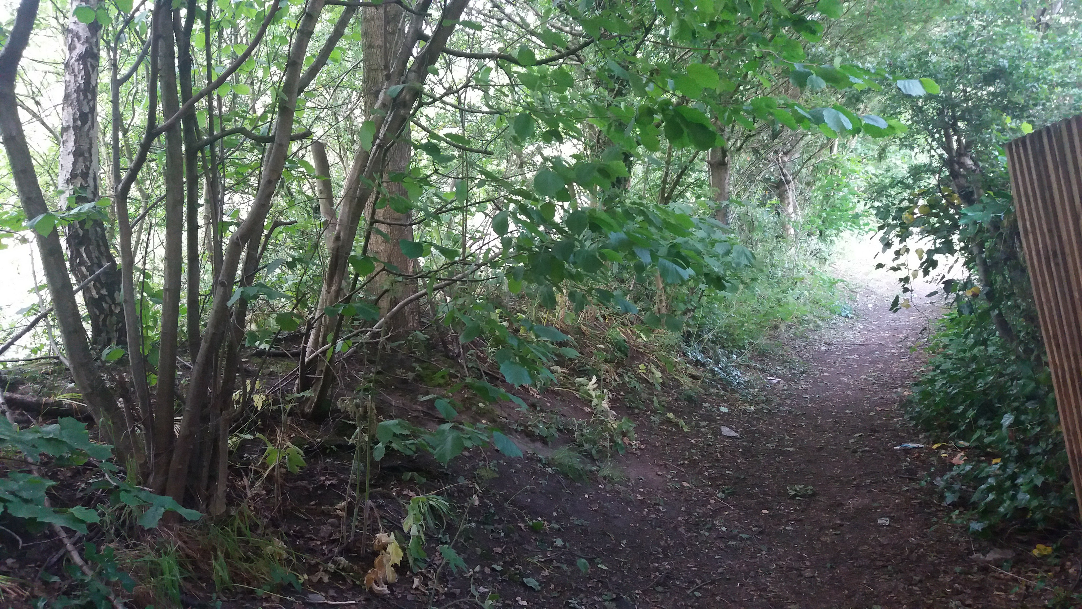 To update the page.